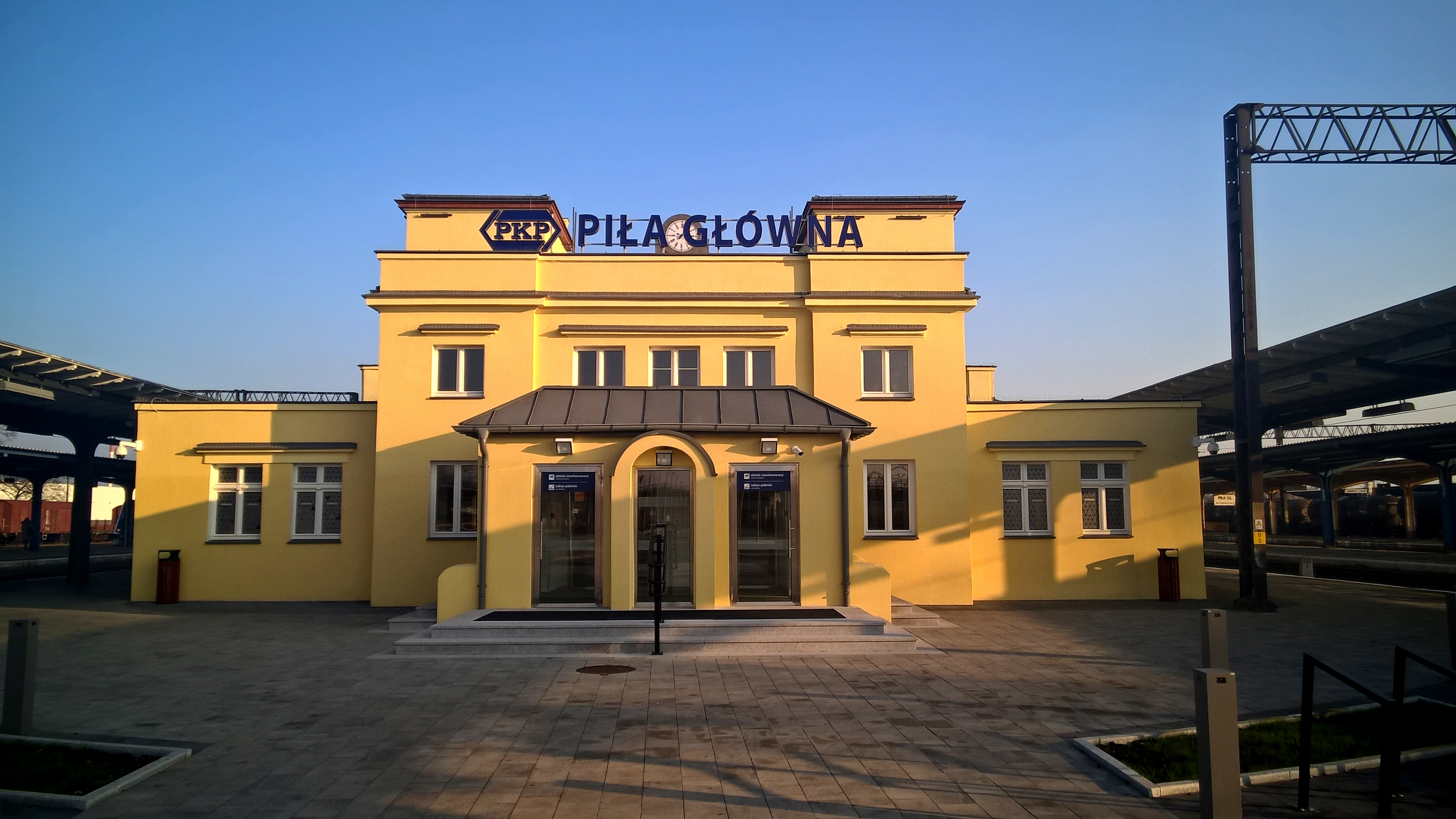 Station Piła Główna after modernization.